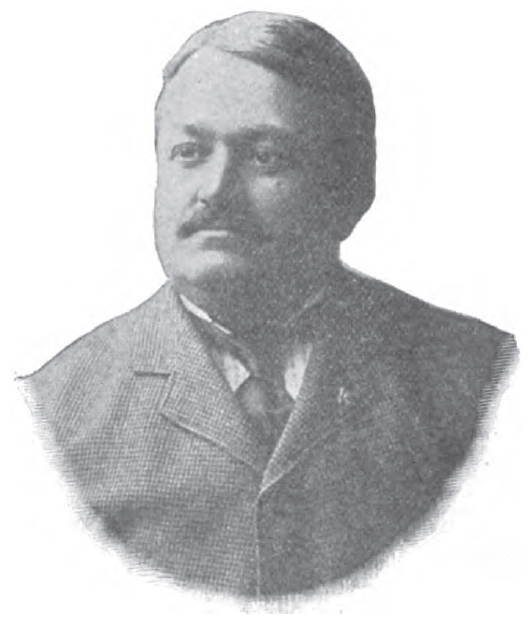 an Ohio politician named Thomas B. Kyle